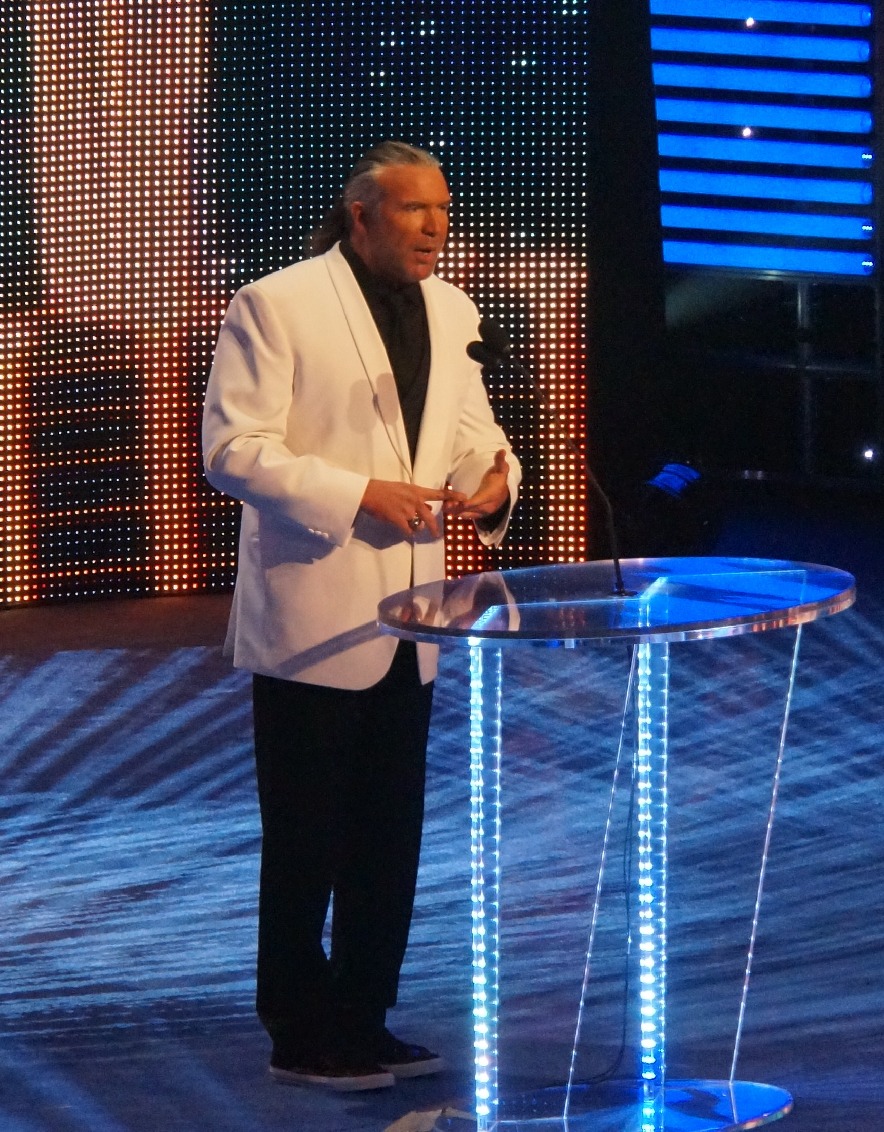 Razor Ramon (Scott Hall) was inducted into the WWE Hall of Fame on 5 April 2014.